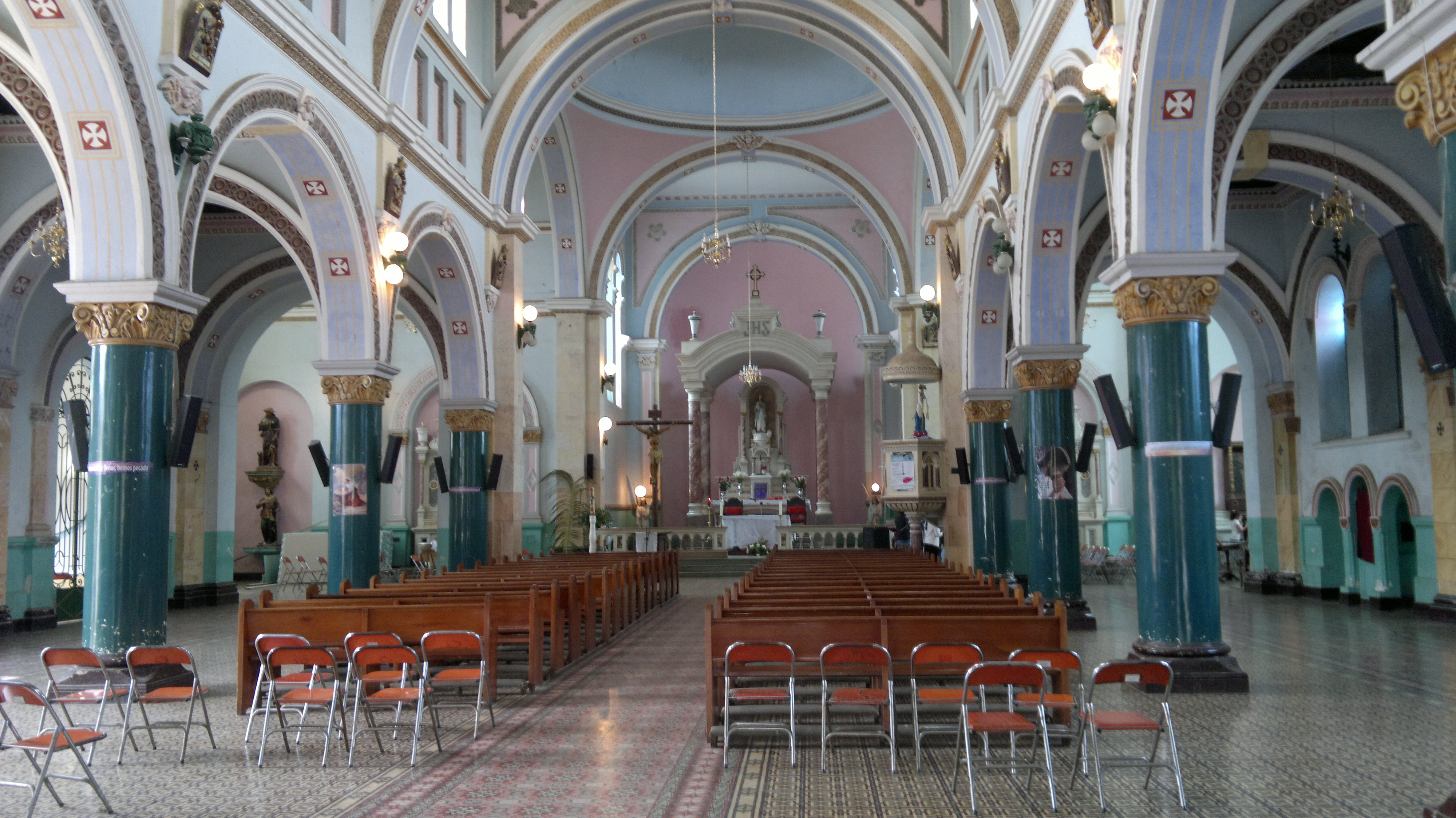 Internal view of Catedral San Joaquin of Manta (Manta, Colombia)